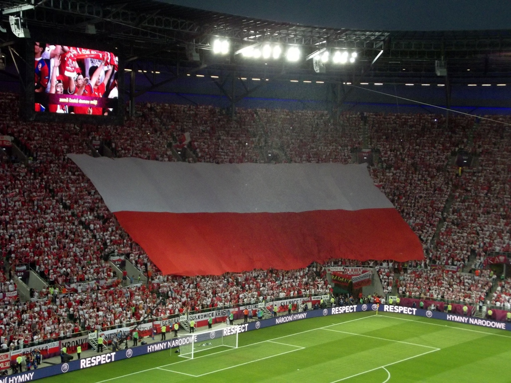 Polish anthem during Czech Republic - Poland, UEFA Euro 2012.